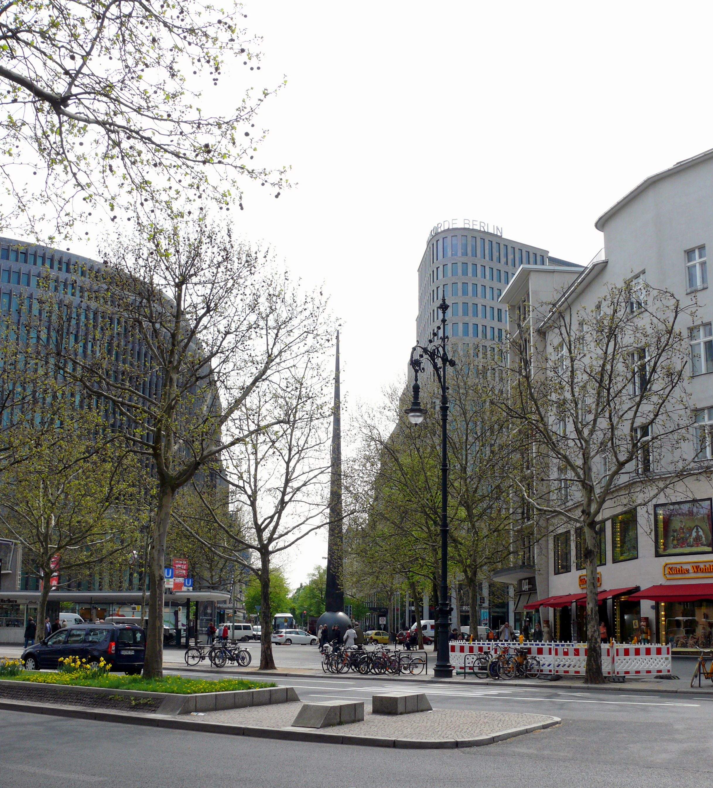 Berlin-Charlottenburg Augsburger Straße Eingang